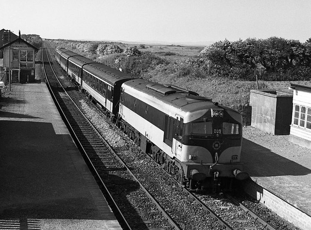 Train at Gormanstown station